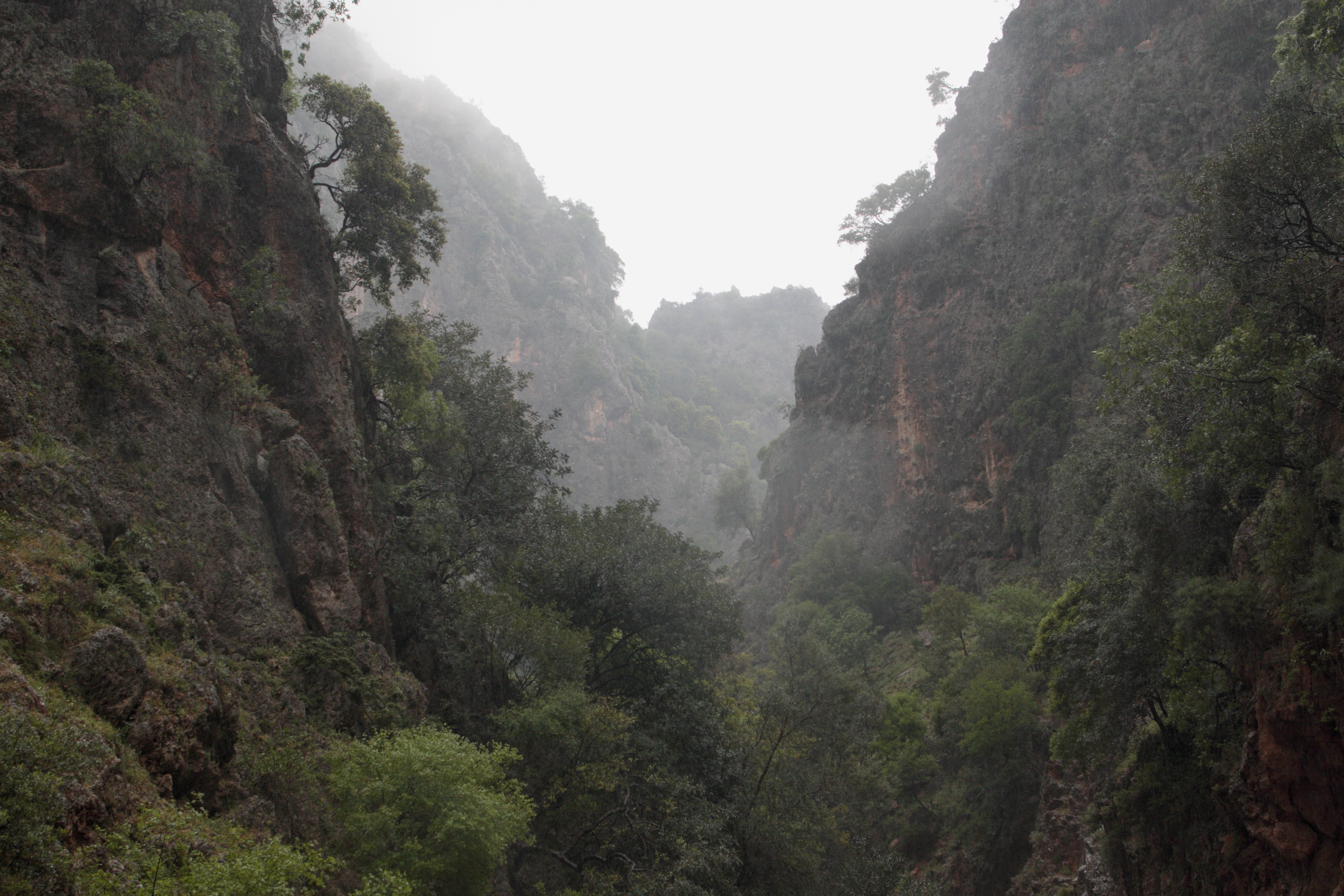 Theriso gorge, Crete